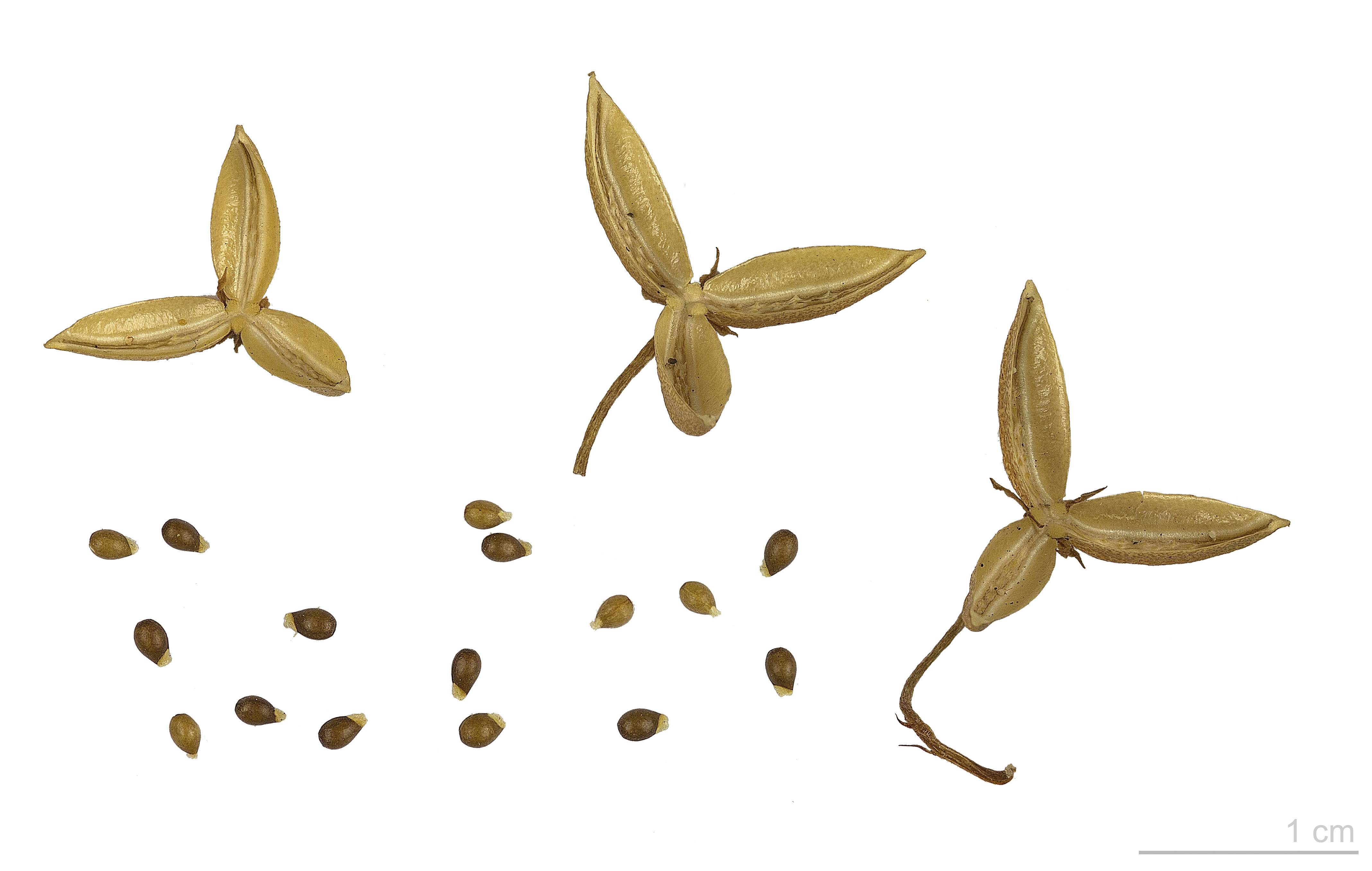 Viola reichenbachiana, early dog-violet, seeds